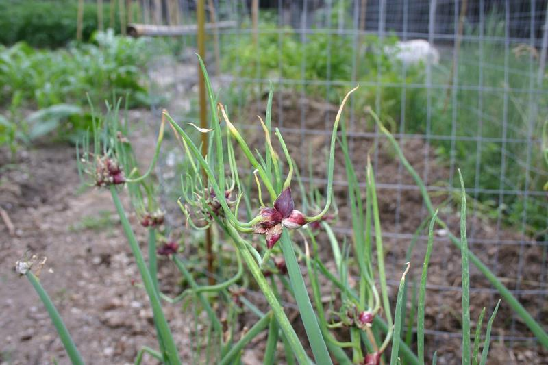 Egyptian Tree Onion, Walking Onion, Topset Onion (Allium cepa var. proliferum)